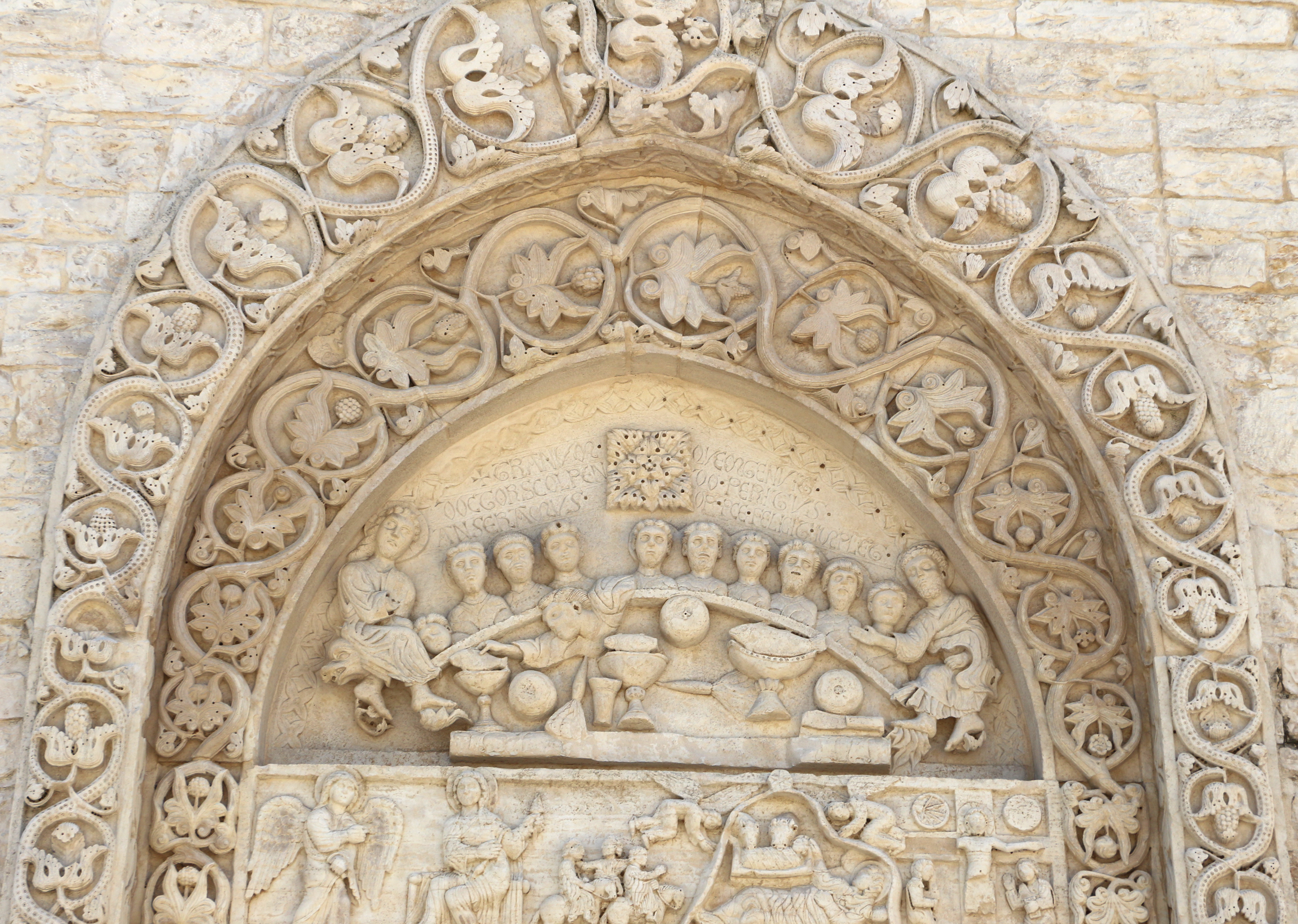 Terlizzi